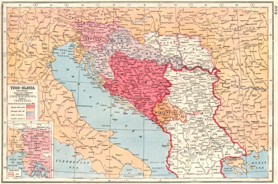 Old map of Yugoslavia from 1920.